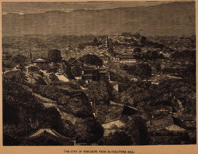 View of Fuzhou from Black Stone Hill (乌山), in the late 19th century